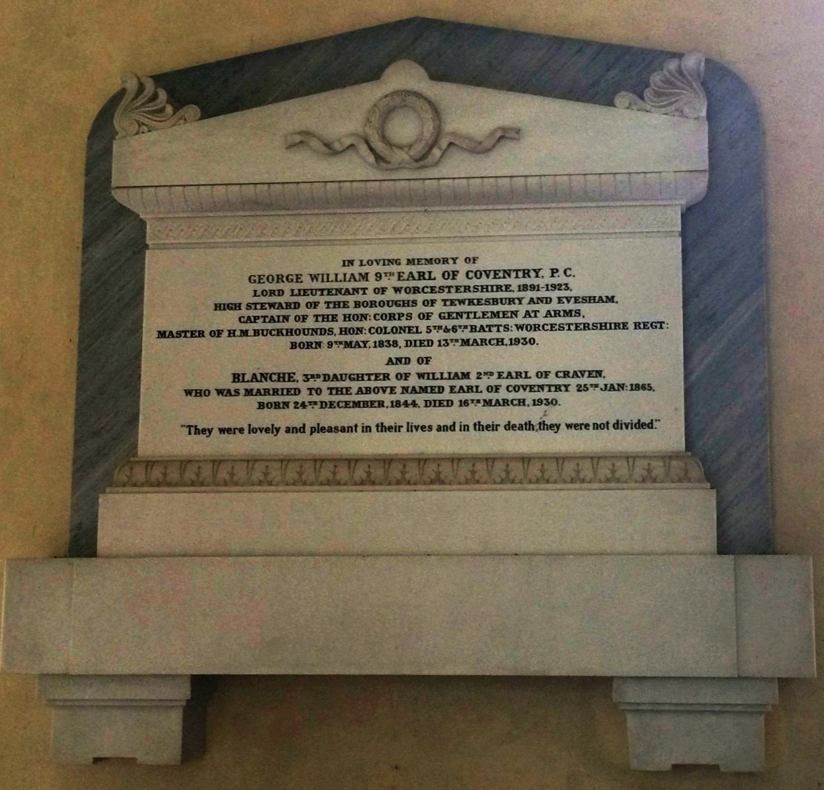 St Mary Magdalene, Croome, Worcs: Wall tablet to George William Coventry, 9th Earl of Coventry (1838–1930)